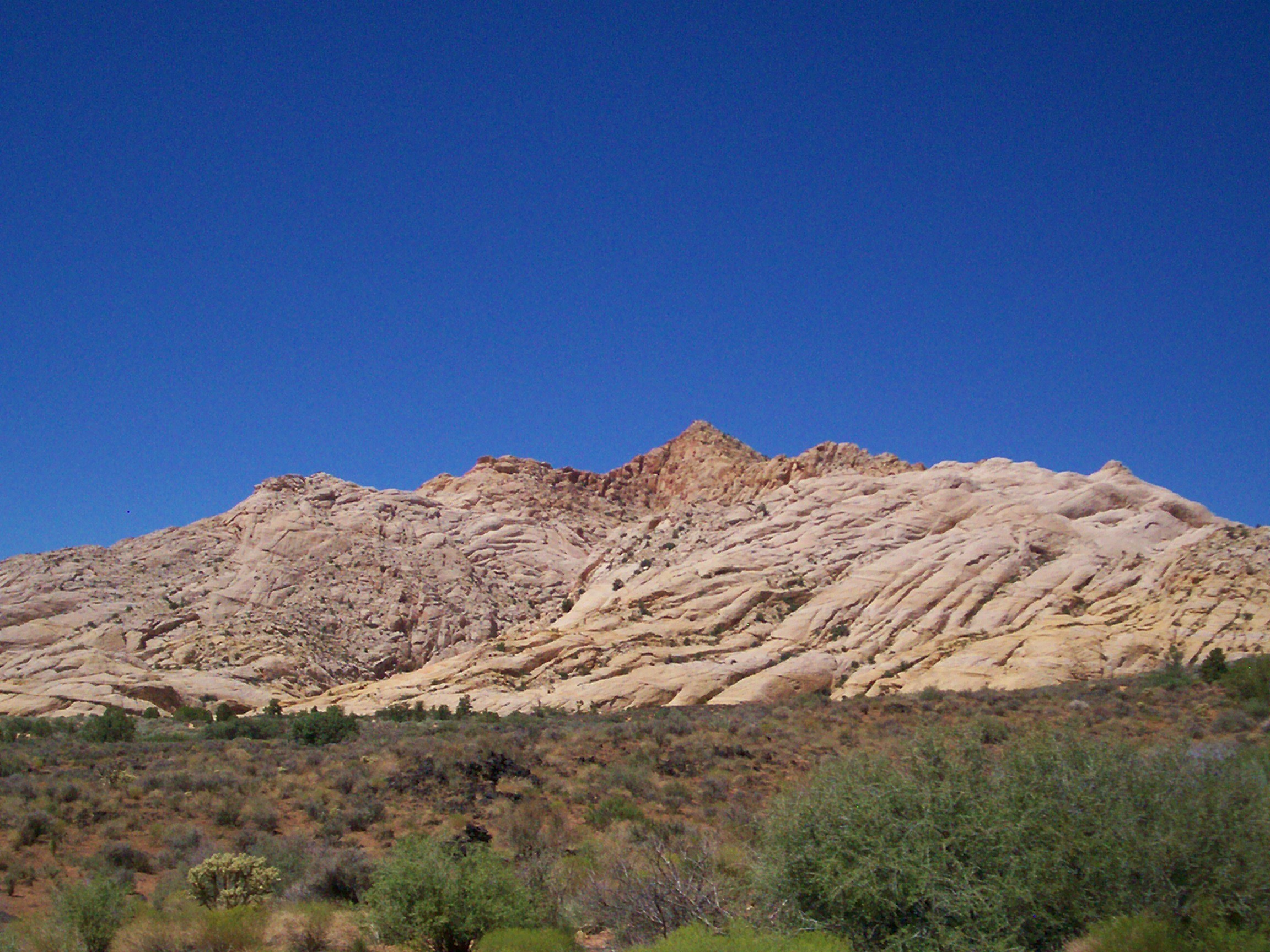 A white Navajo Sandstone in Snow Canyon State Park, Utah, USA.